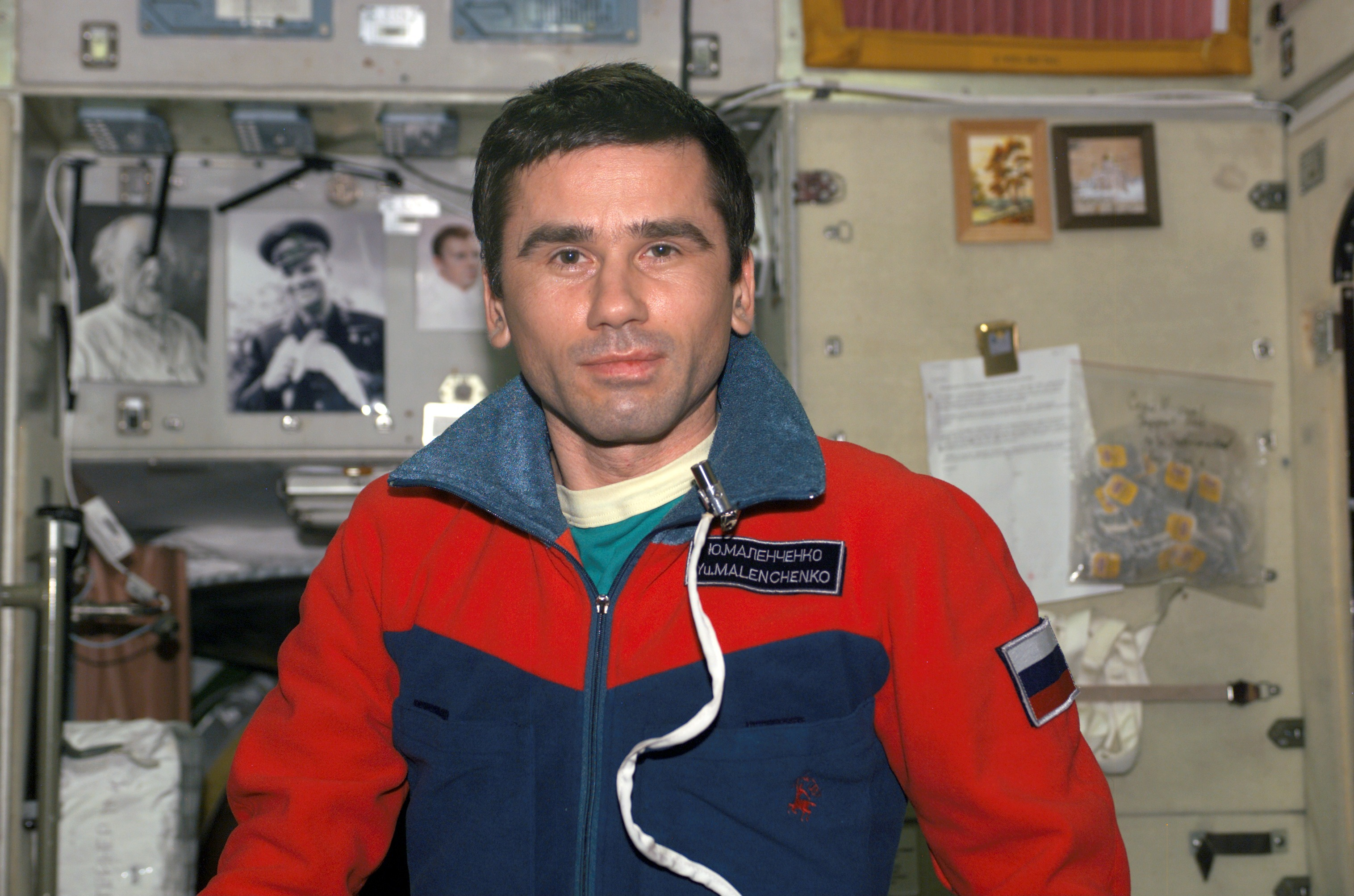 Cosmonaut Yuri I. Malenchenko, Expedition 7 mission commander, is pictured in the Zvezda Service Module of the International Space Station (ISS). The photo was taken by NASA ISS Science Officer and Flight Engineer Edward T. Lu, who was celebrating a birthday at the time.